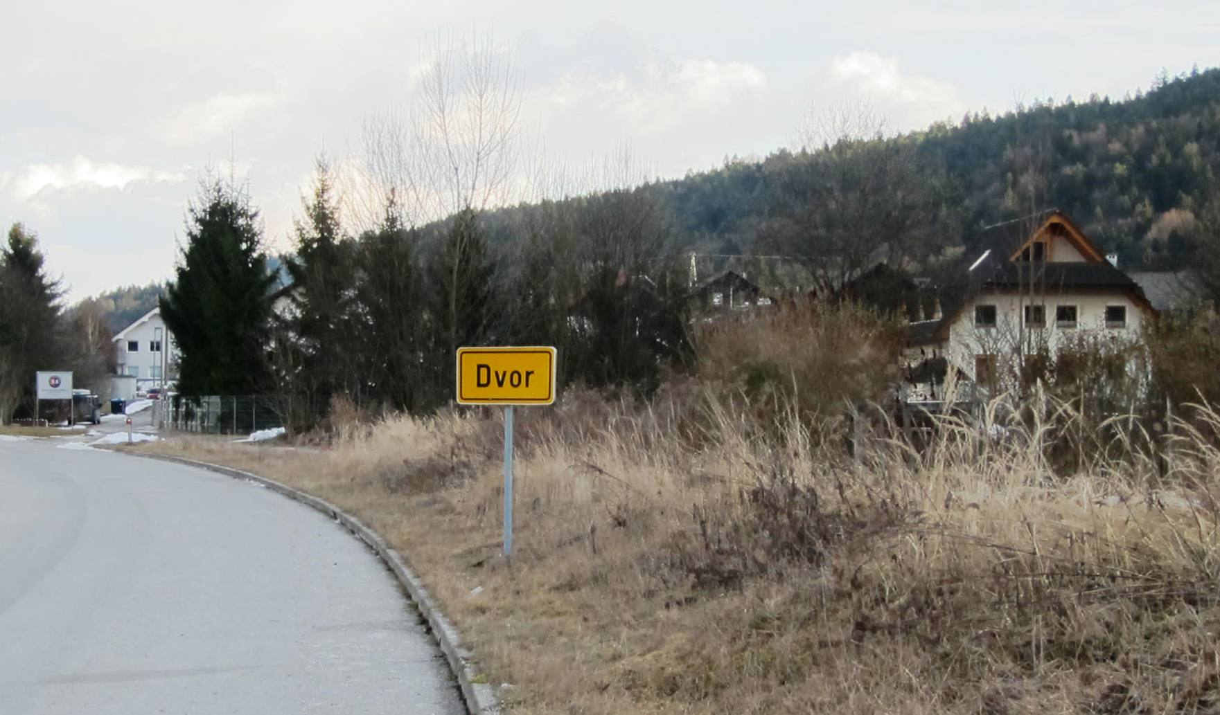 The settlement of Dvor in the Municipality of Ljubljana, Slovenia